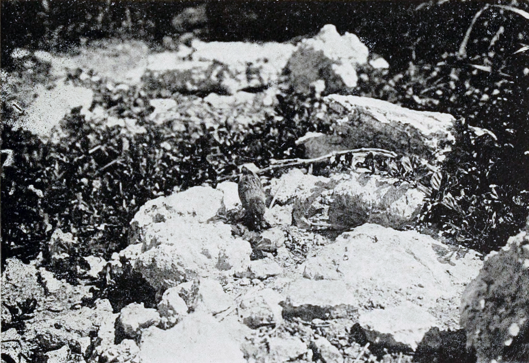 Laysan Crake (Porzana palmeri) bird feeding on a seabirds egg picture from 'Birds of Laysan and the Leeward Islands, Hawaiian Group' by Walter K. Fisher from the year 1906 Photo: by courtesy of the Freshwater and Marine Image Bank